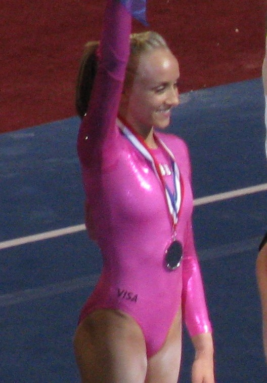 Nastia Liukin atop the podium at the 2008 U.S. National Championships (all-around silver medal winner)